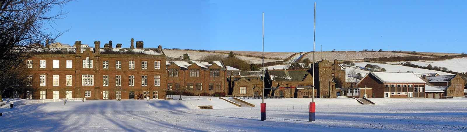 St Bees School, founded 1583, in winter snow, from the playing fields.